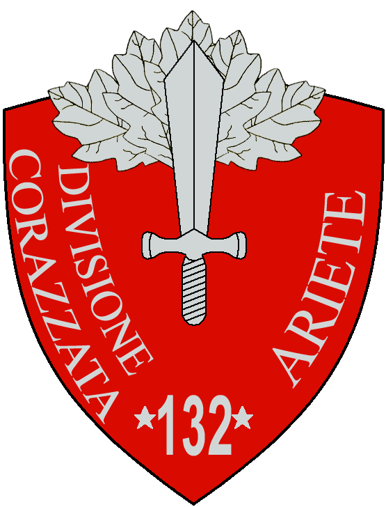 Coat of Arms of the WWII 132a Divisione Corazzata Ariete of the Italian Regio Esercito